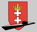 Emblem of 8th U-boat flotillia of Kriegsmarine.